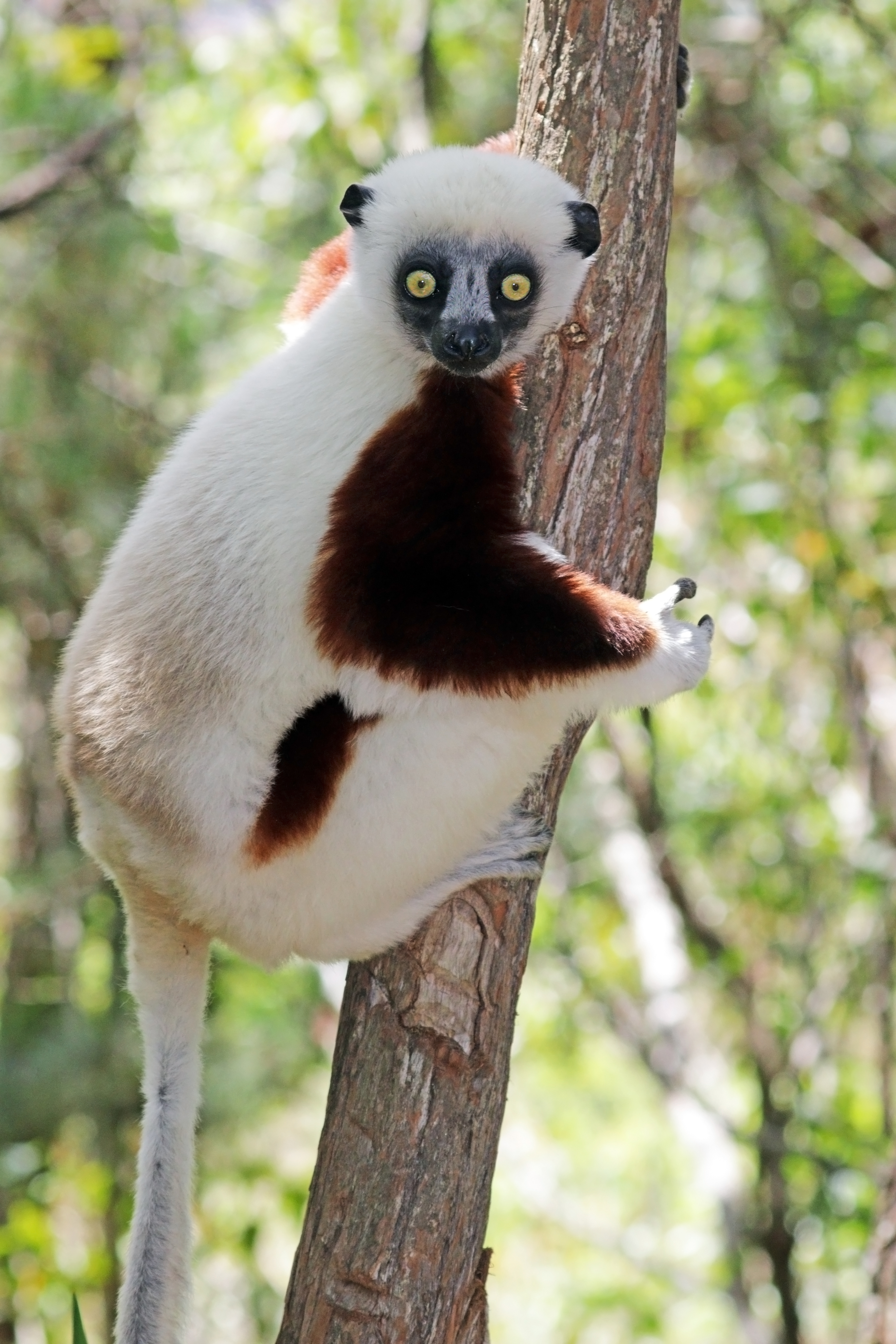 Coquerel's sifaka (Propithecus coquereli), Peyrieras Nature Reserve, Madagascar. These are wild, but habituated and introduced from another part of Madagascar.